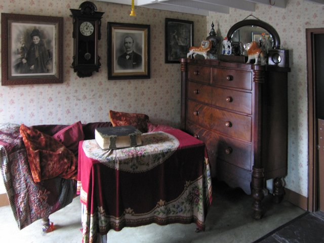 Interior of late 19th century terraced house - National History Museum of Wales, St Fagans. This is the interior of one of the terraced workers' houses in the row re-built at the National History Museum (138626). The interior must reflect the style of the turn of the 19th/20th century: photographs have appeared on the wall. The massive volume on the table is a Welsh bible.